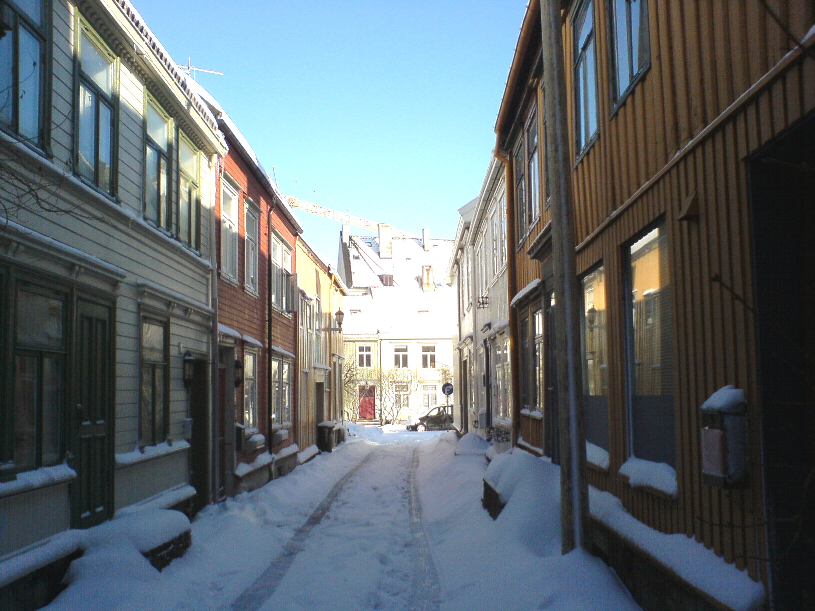 Picture of the street Willmannsveita in Trondheim, Norway.